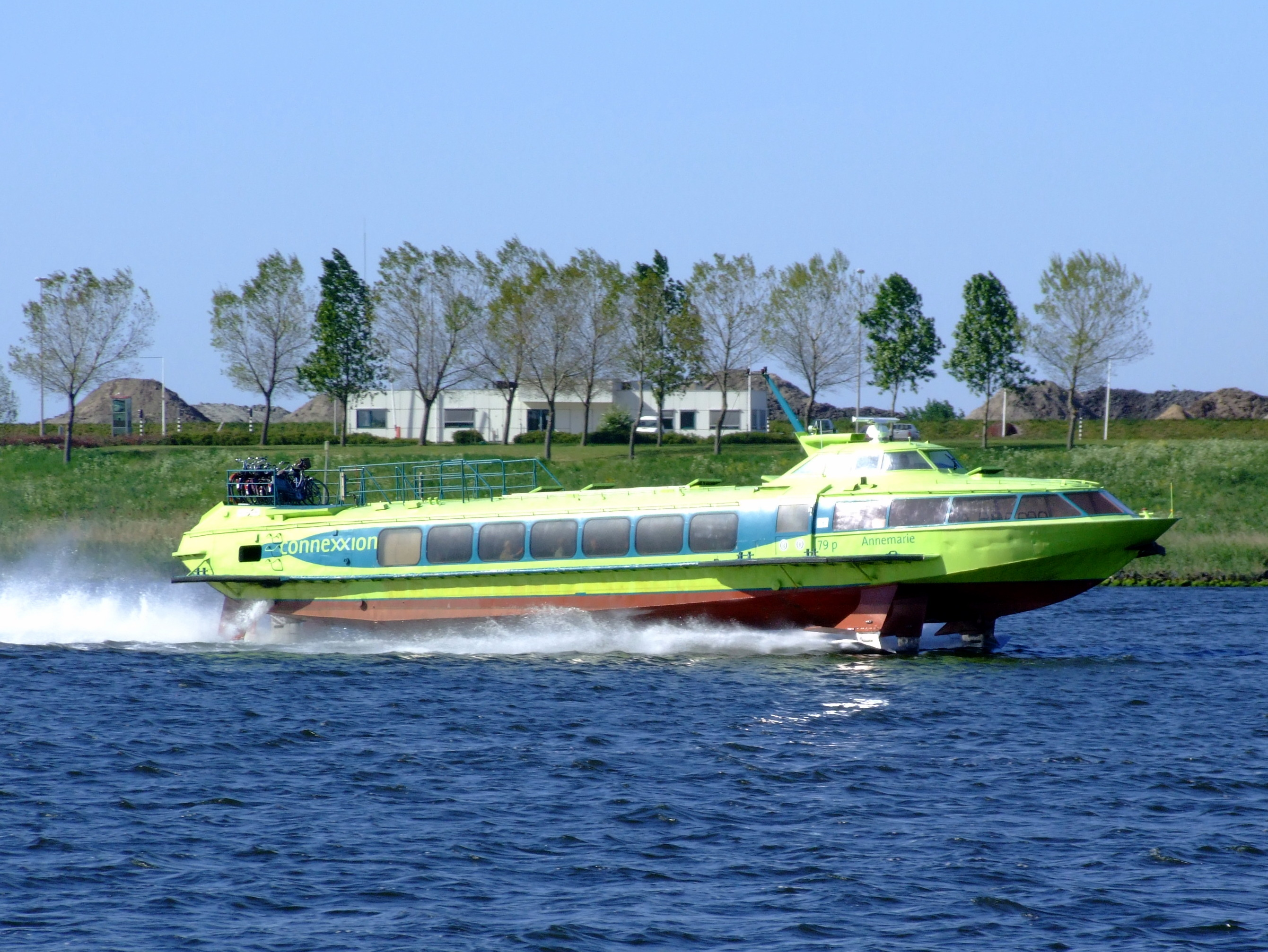 Photographed at the Noordzeekanaal.